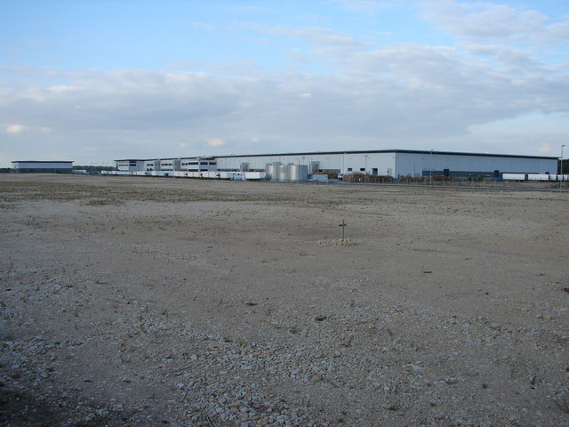 Sports Direct Head Office (formerly known as Sports World), outskirts of Shirebrook, Derbyshire. Enormous warehouse and office complex with its own helipad. Mainly warehouse! I had to stand in the adjacent Grid Square in order to fit it all in.